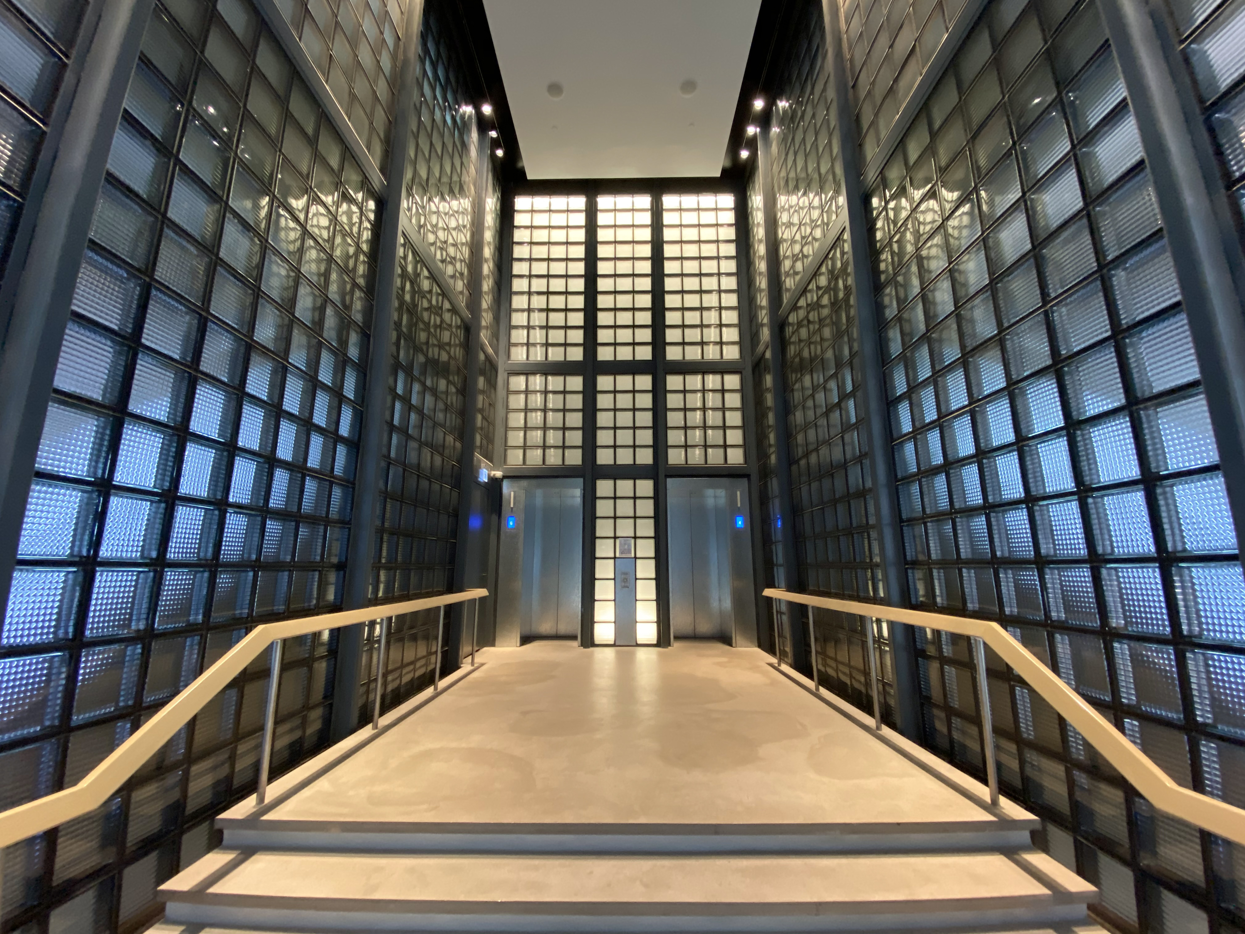 The Mills Office lobby